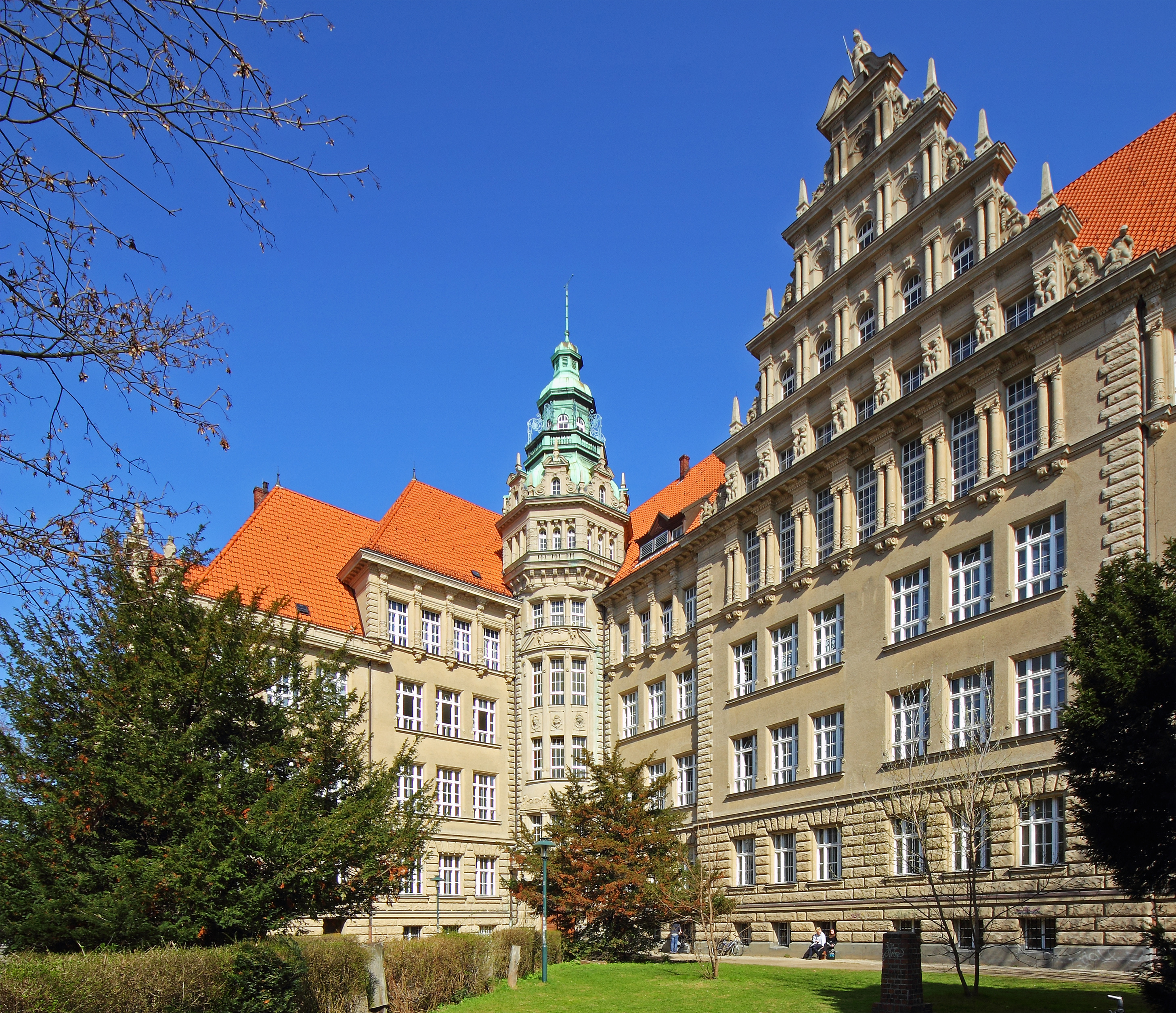 Carl-von-Ossietzky-Gymnasium, located in Görschstraße, Berlin-Pankow